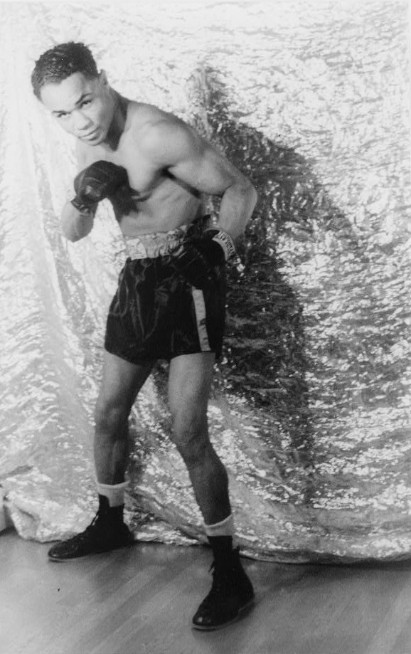 Portrait of Henry Armstrong